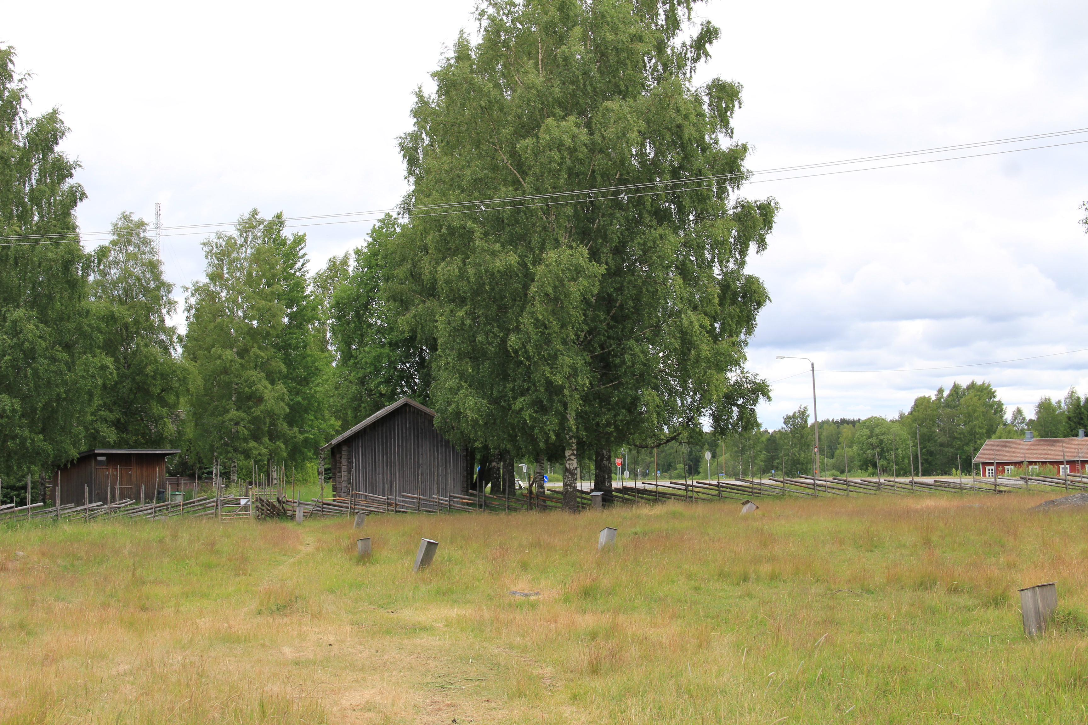 Luistari archaeological site, Eura, Finland. - Photo taken from south towards north.